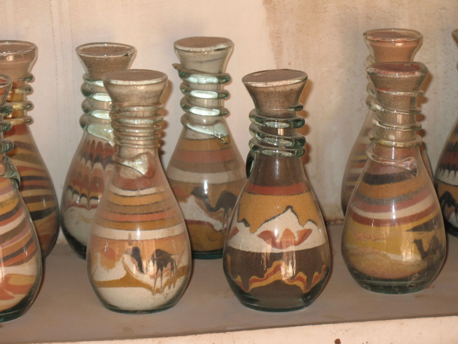 Souvenirs from Petra: sand in bottles